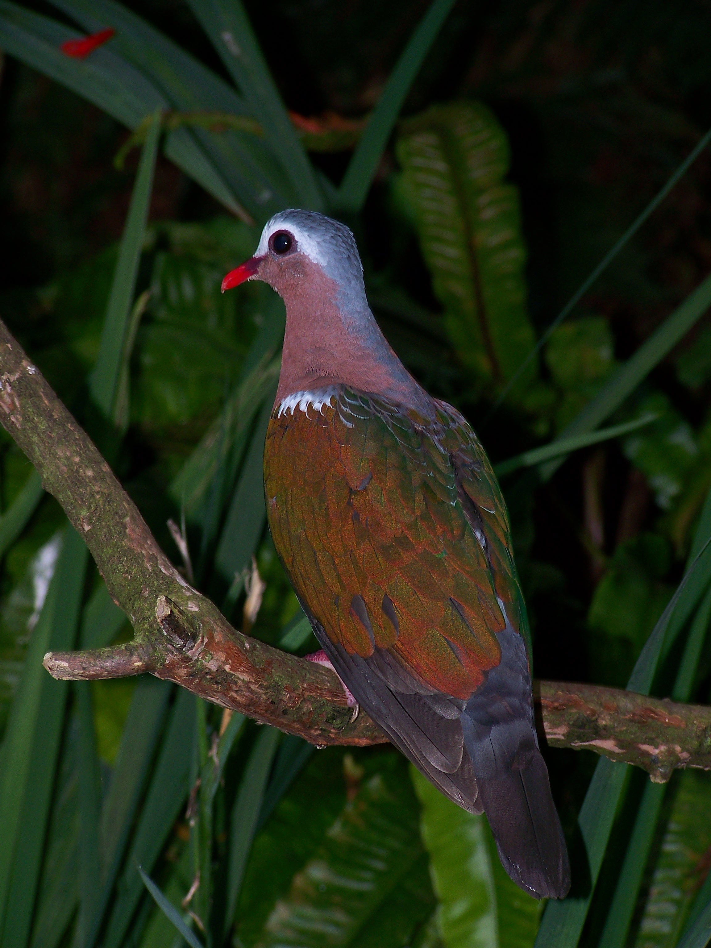 Emerald dove / Green-winged dove - Chalcophaps indica